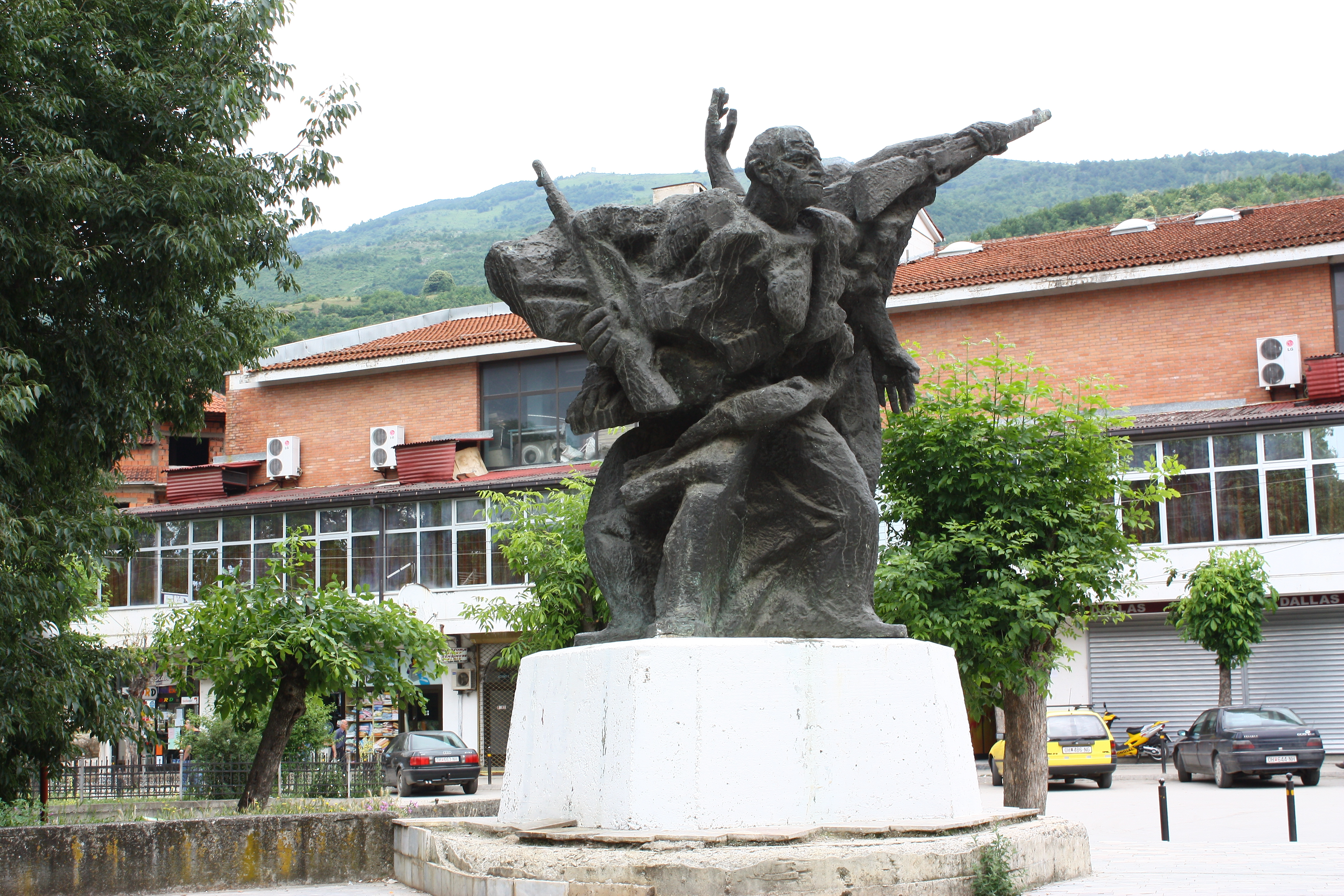 Debar, Macedonia